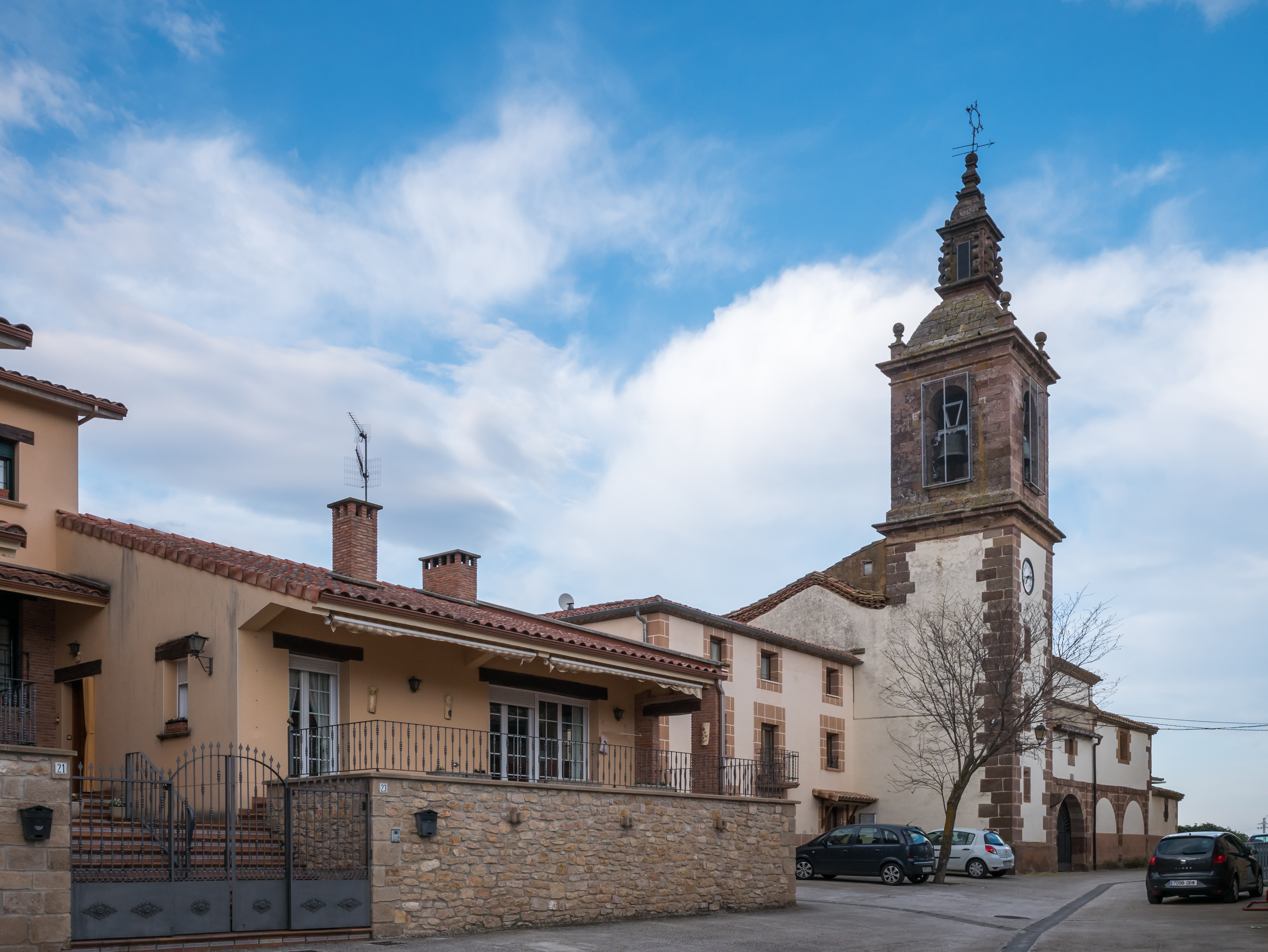 Church of Ancín. Navarre, Spain